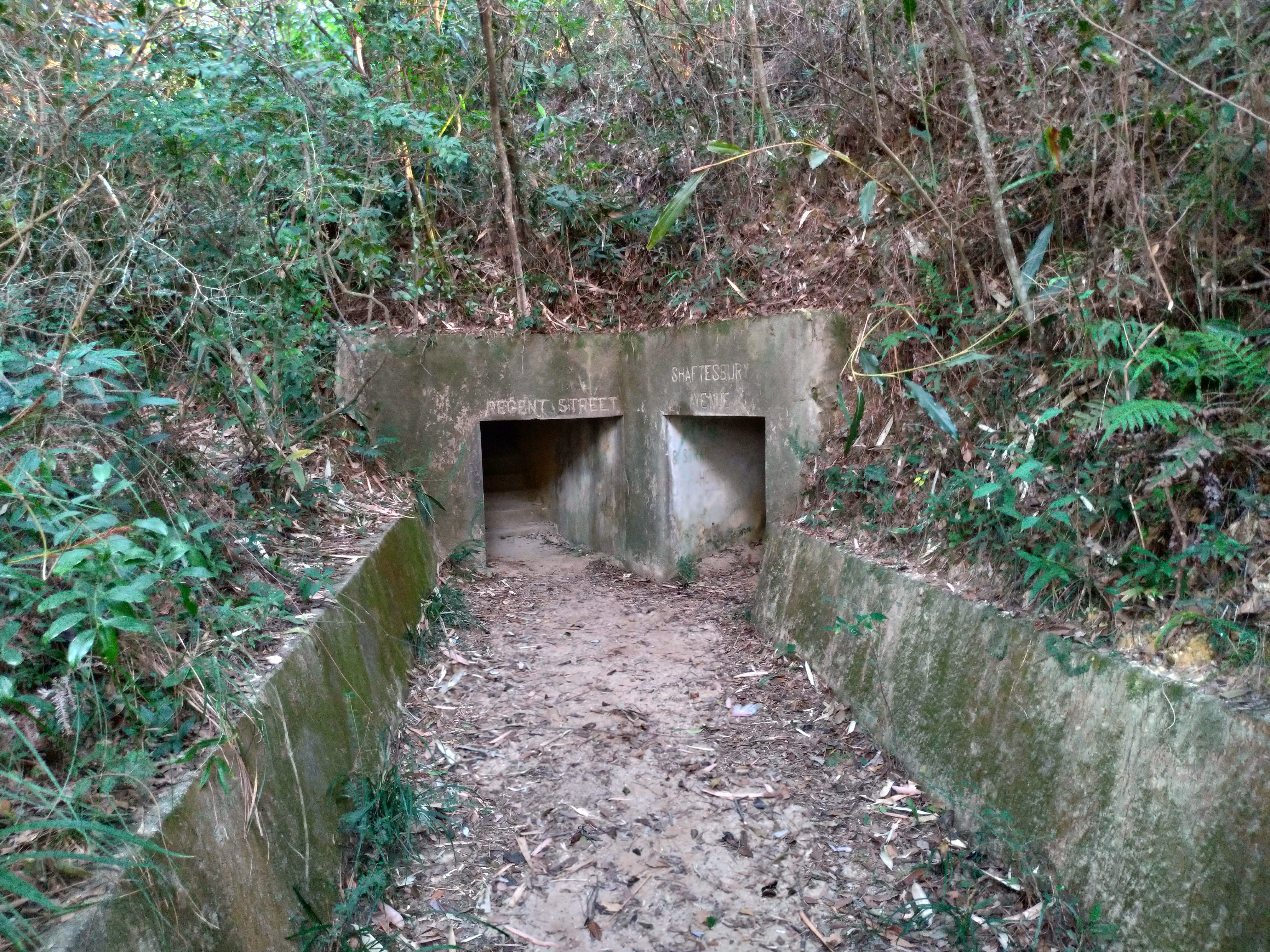 The tunnel exits of Regent Street and Shaftesbury Avenue.